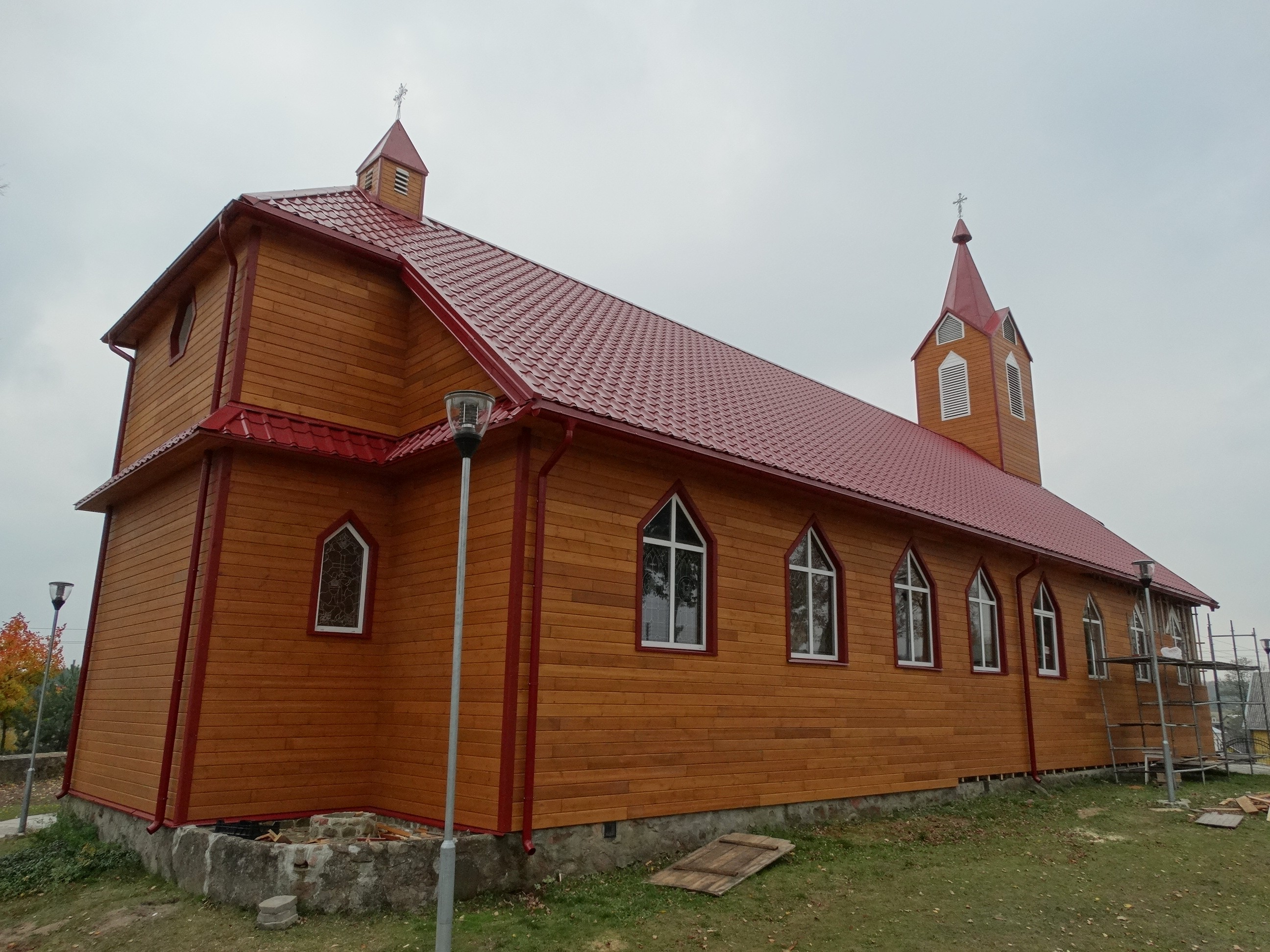 Roman Catholic Church, Kapčiamiestis, Lithuania